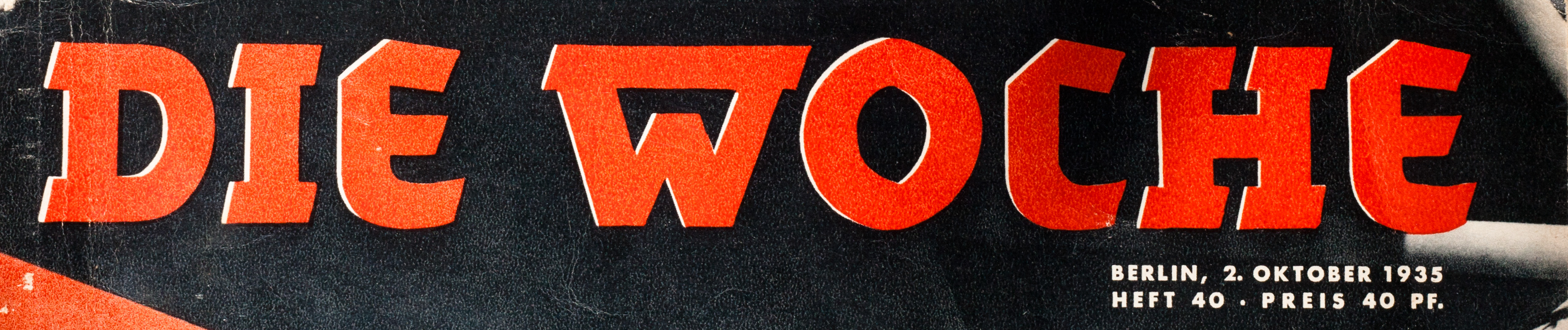 The words "Die Woche" of the german boulevard magazine, Oct. 1935